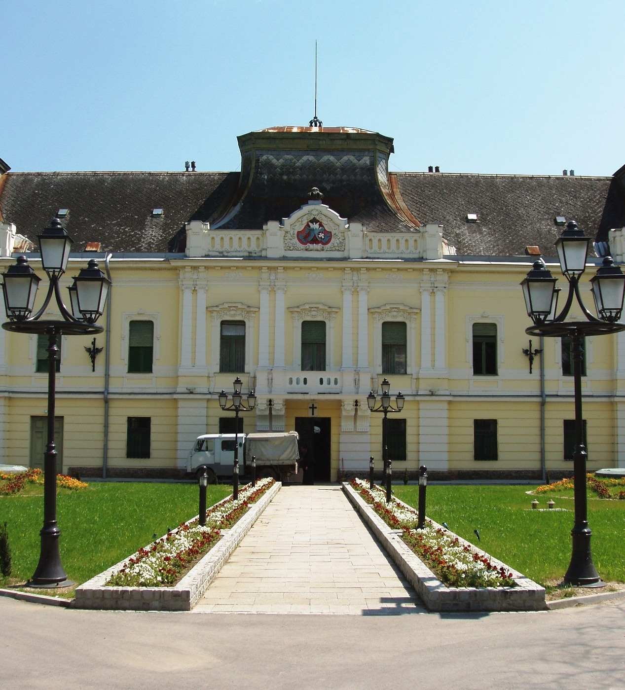 Serbian Bishop Palace in Vršac, Vojvodina, Serbia